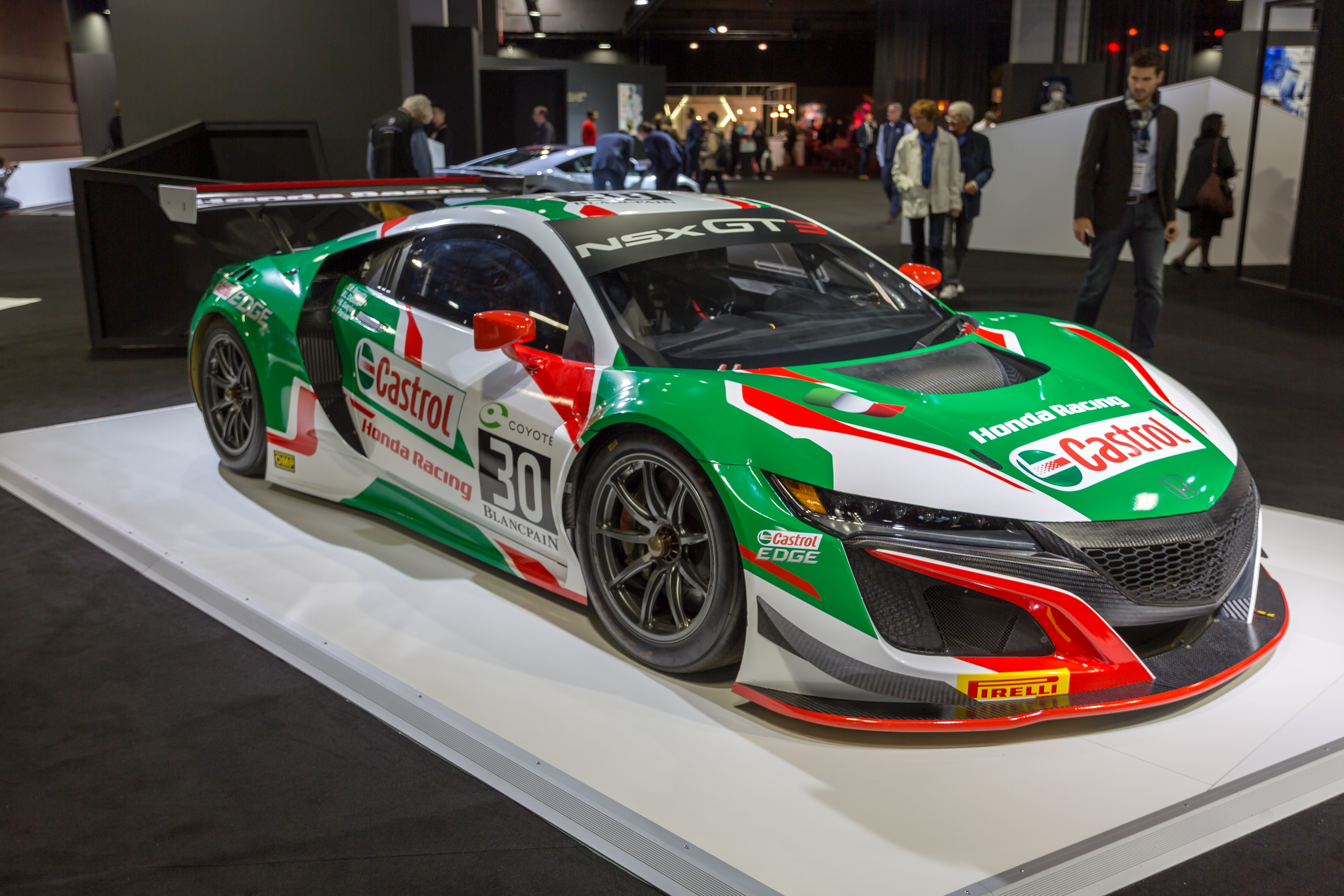 Press days at Mondial Paris Motor Show 2018